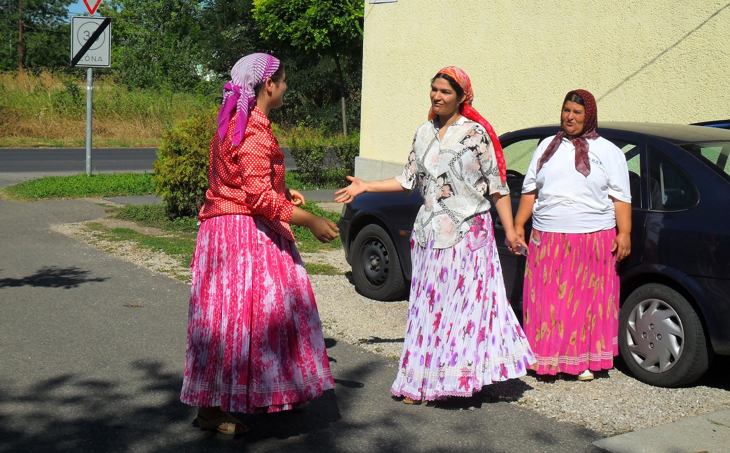 Gabor gypsies from Transylvania